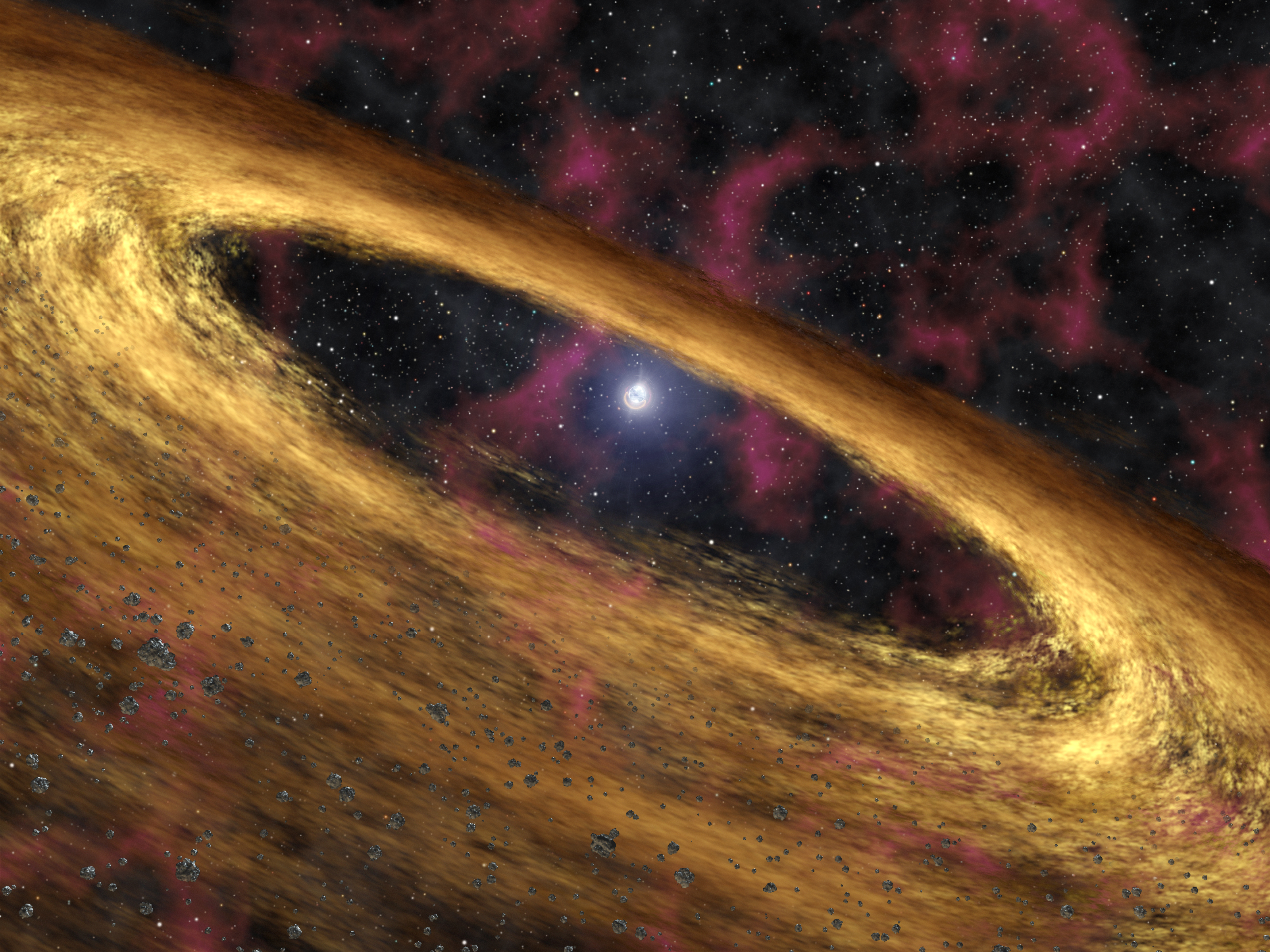 Artist’s concept of a fallback disk around pulsar 4U 0142+61.